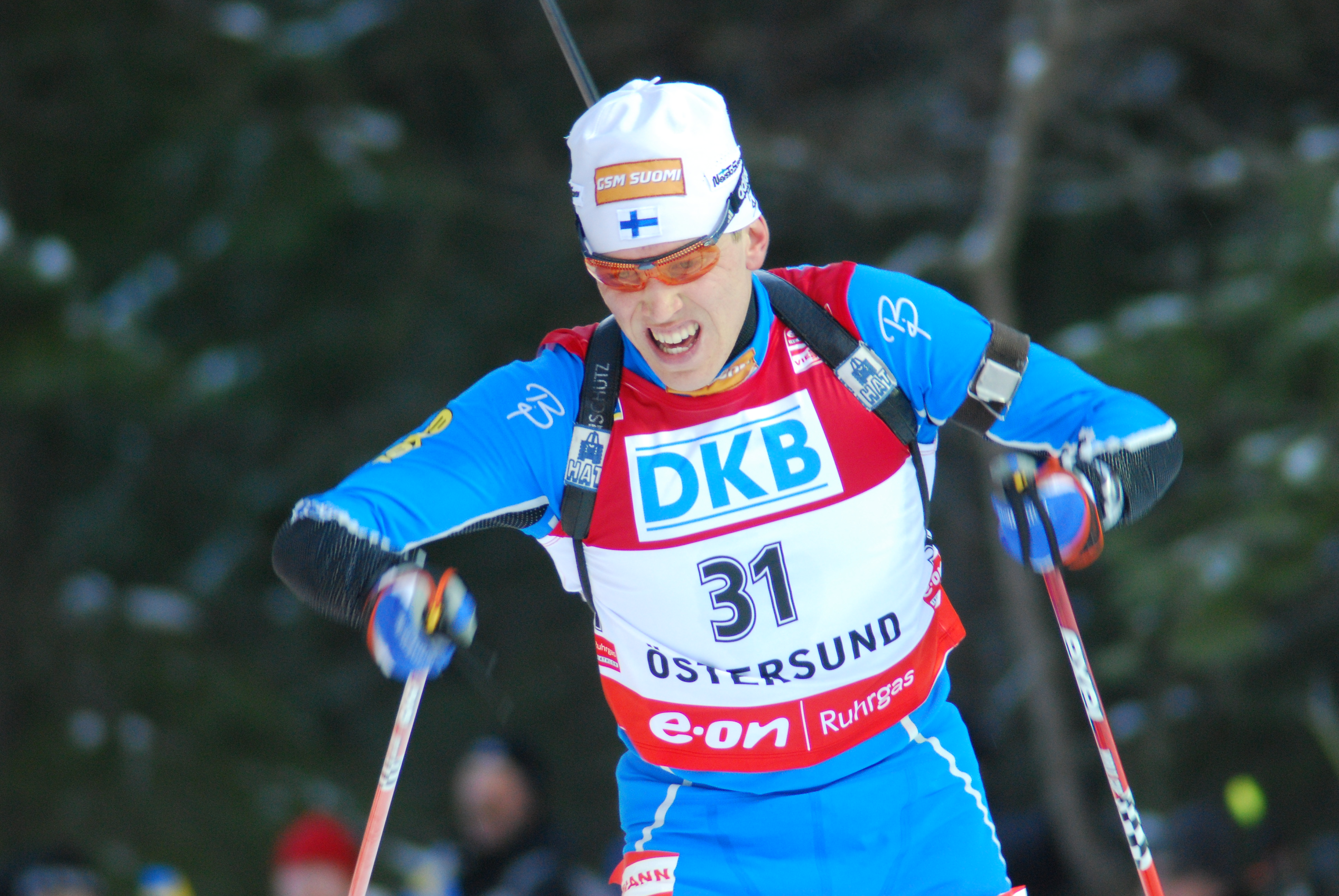 Finnish biathlete Timo Antila during the World Championships in Östersund 2008.